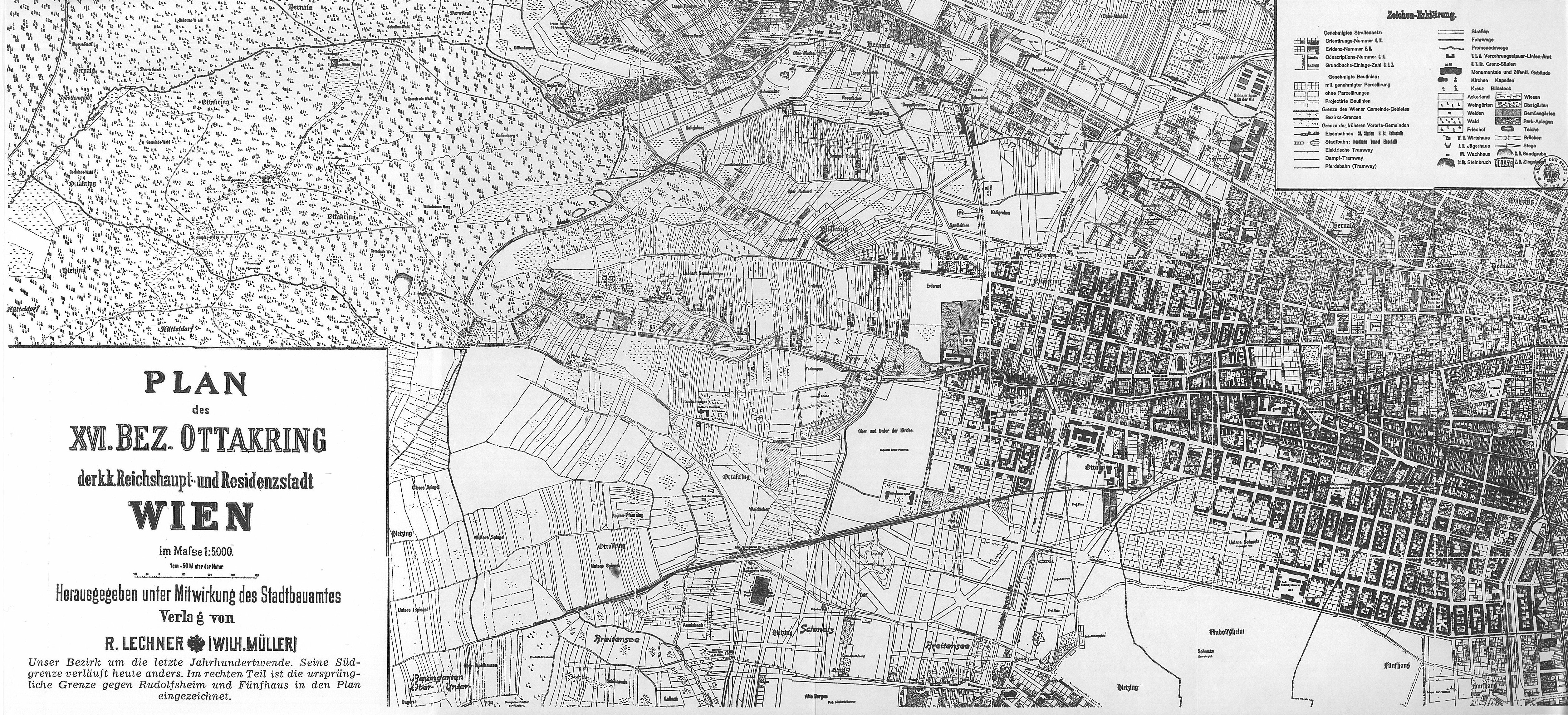 First map of the new 16. district in Vienna "OTTAKRING", 1892